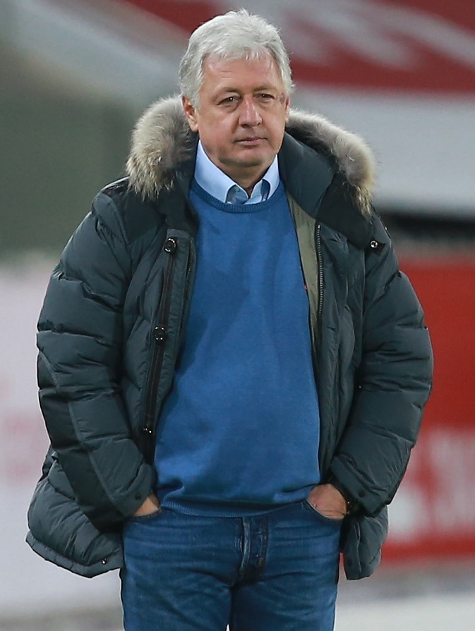 Rinat Bilyaletdinov coaching FC SKA-Khabarovsk in a game against FC Spartak Moscow.